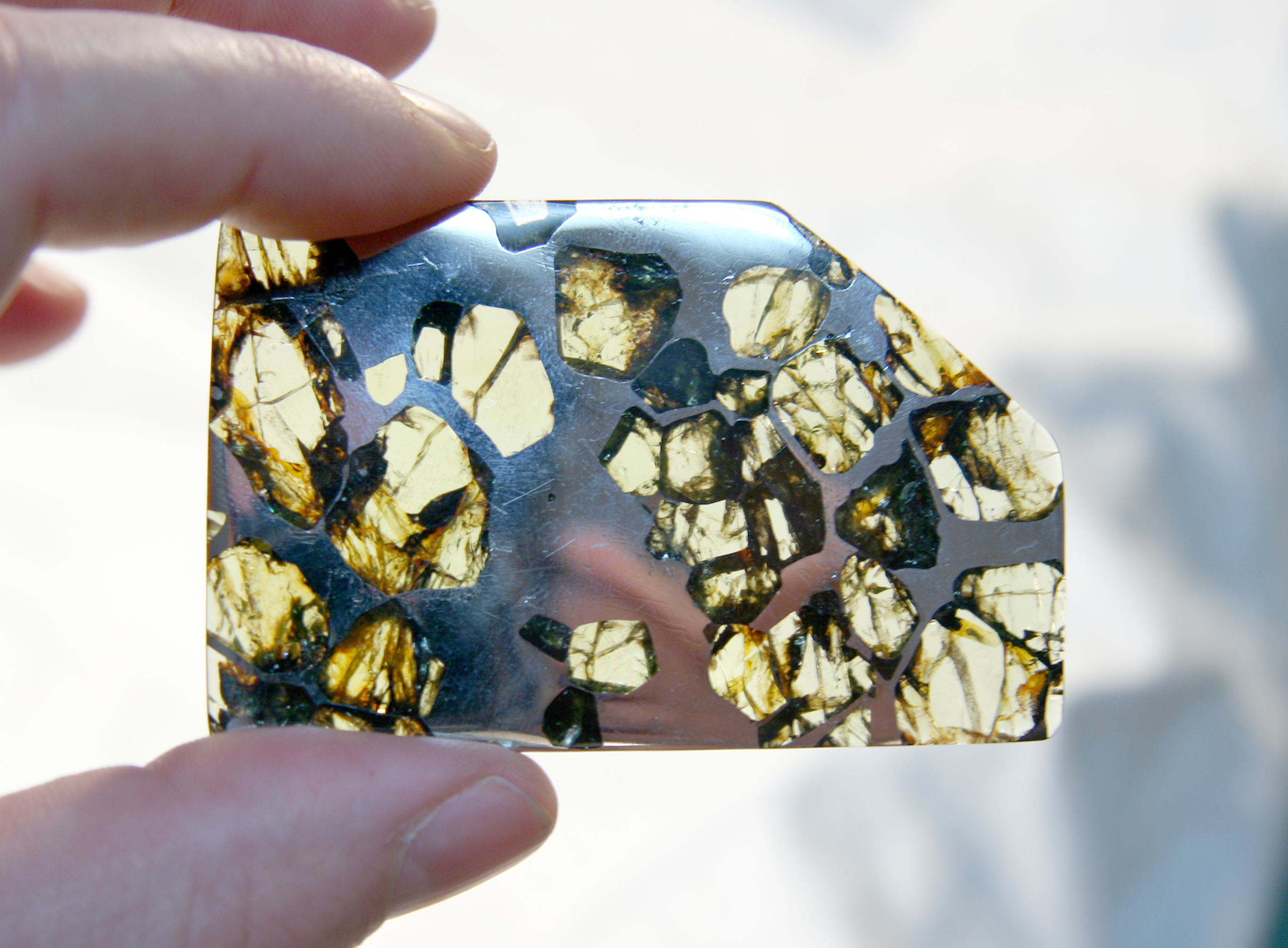 A slice of the Esquel meteorite. This type of meteorite is from the core-mantle boundary of an ancient planetoid that was smacked apart billions of years ago. The metal is iron/nickel core material and the crystals are peridot from the mantle area. At the interface, they mix together as you can see. This piece is from my collection.